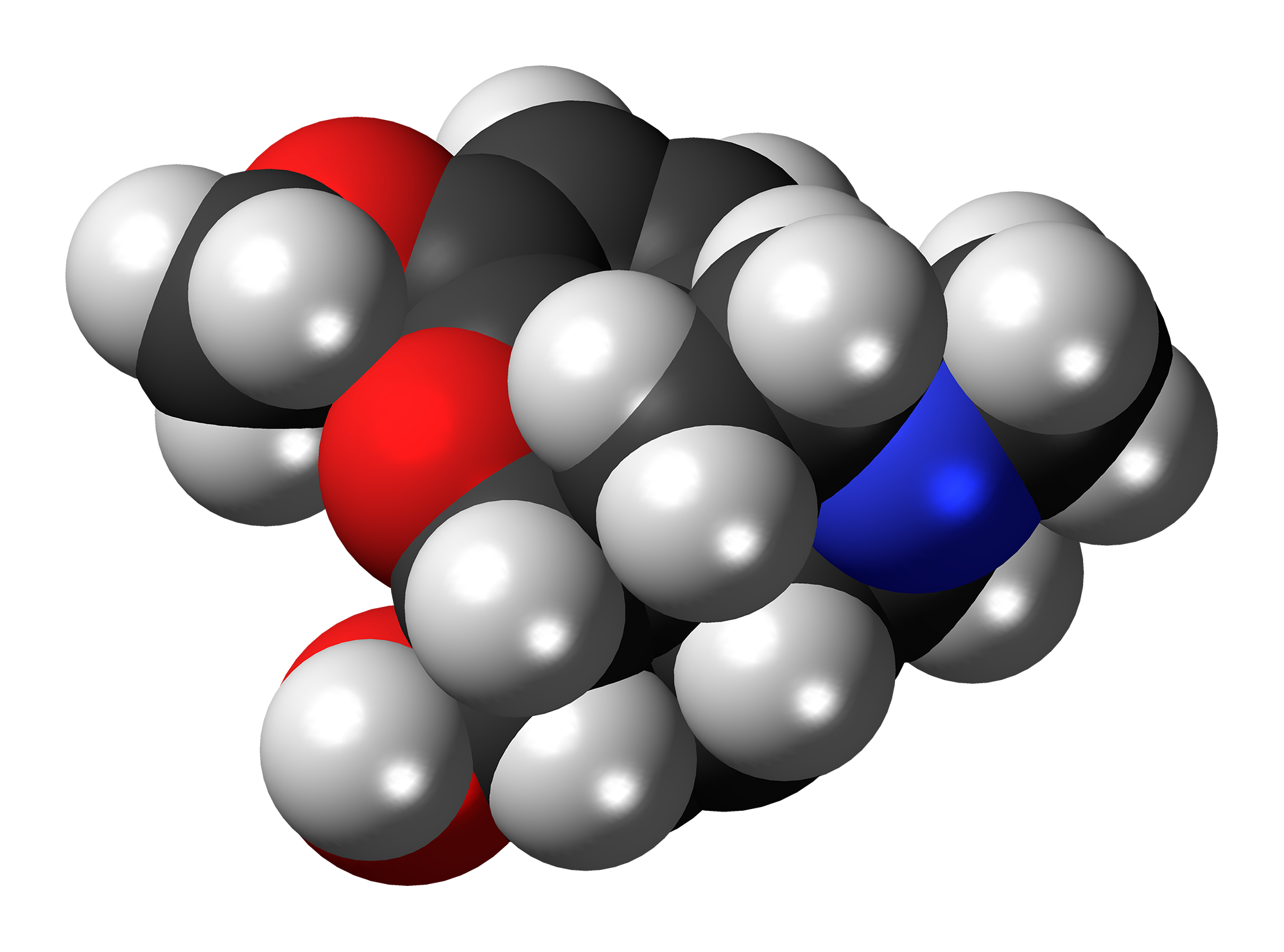 Space-filling model of the codeine molecule, a common prescription painkiller. Color code: Carbon, C: black Hydrogen, H: white Oxygen, O: red Nitrogen, N: blue